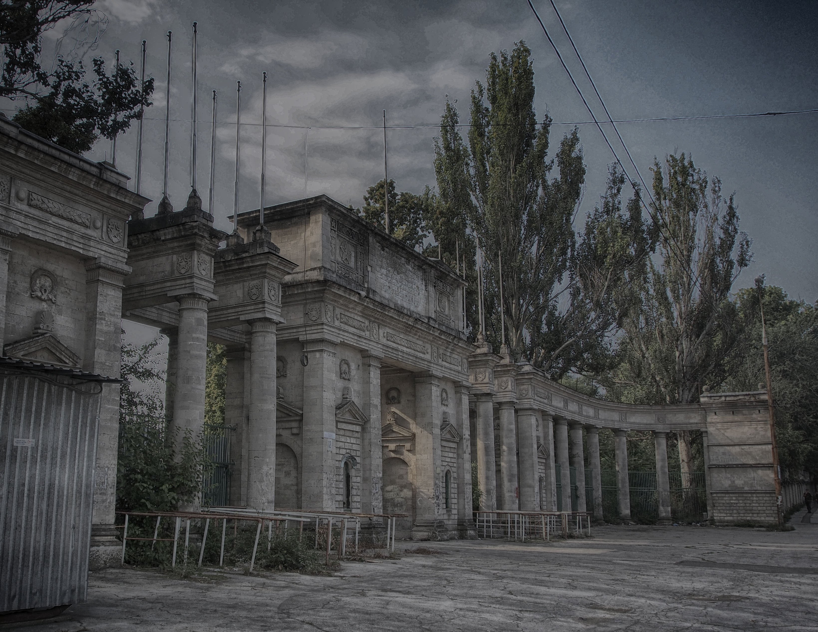 Neglected athletic field